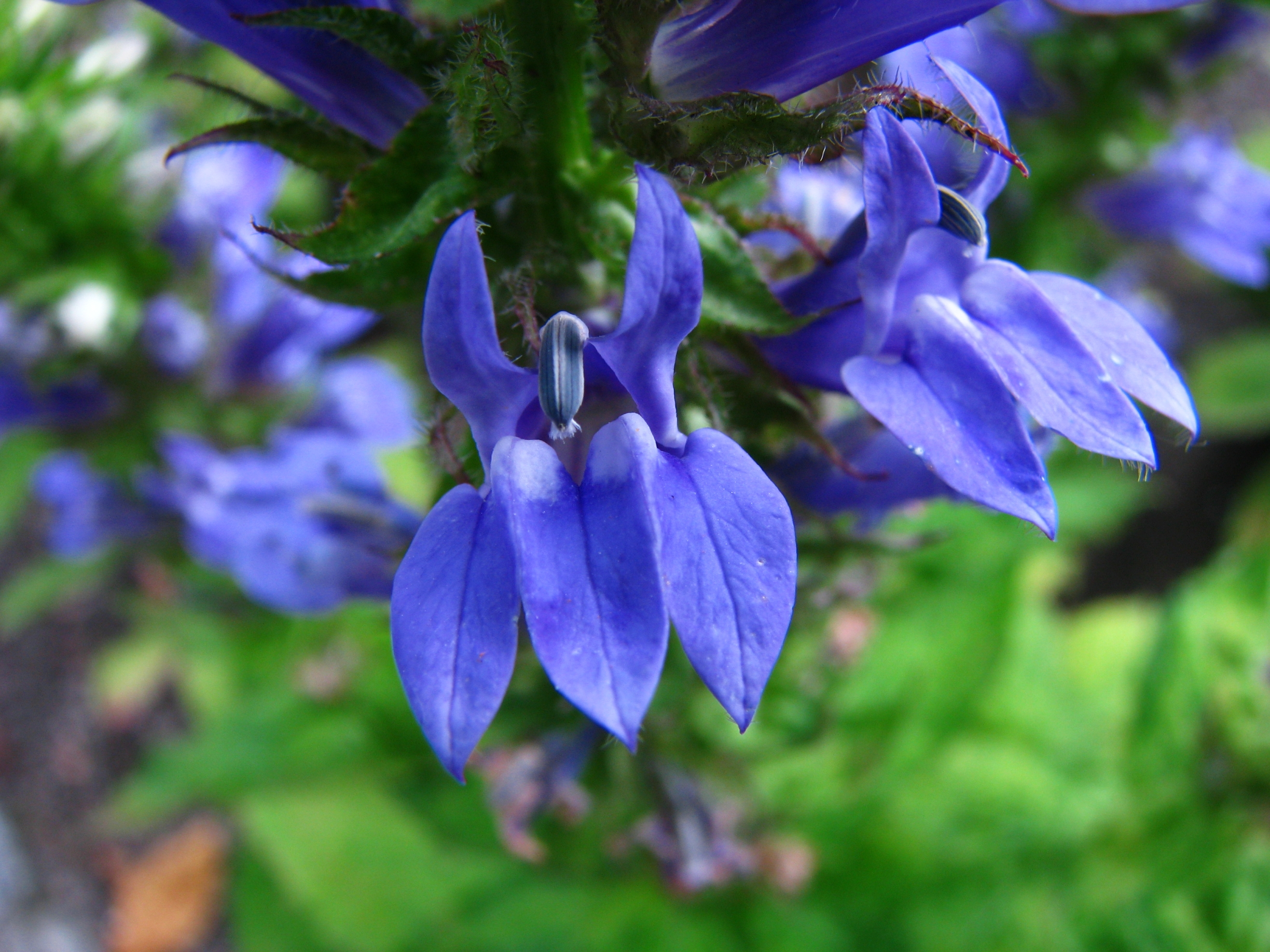 Lobelia siphilitica, cultivated in Wrocław University Botanical Garden, Poland.